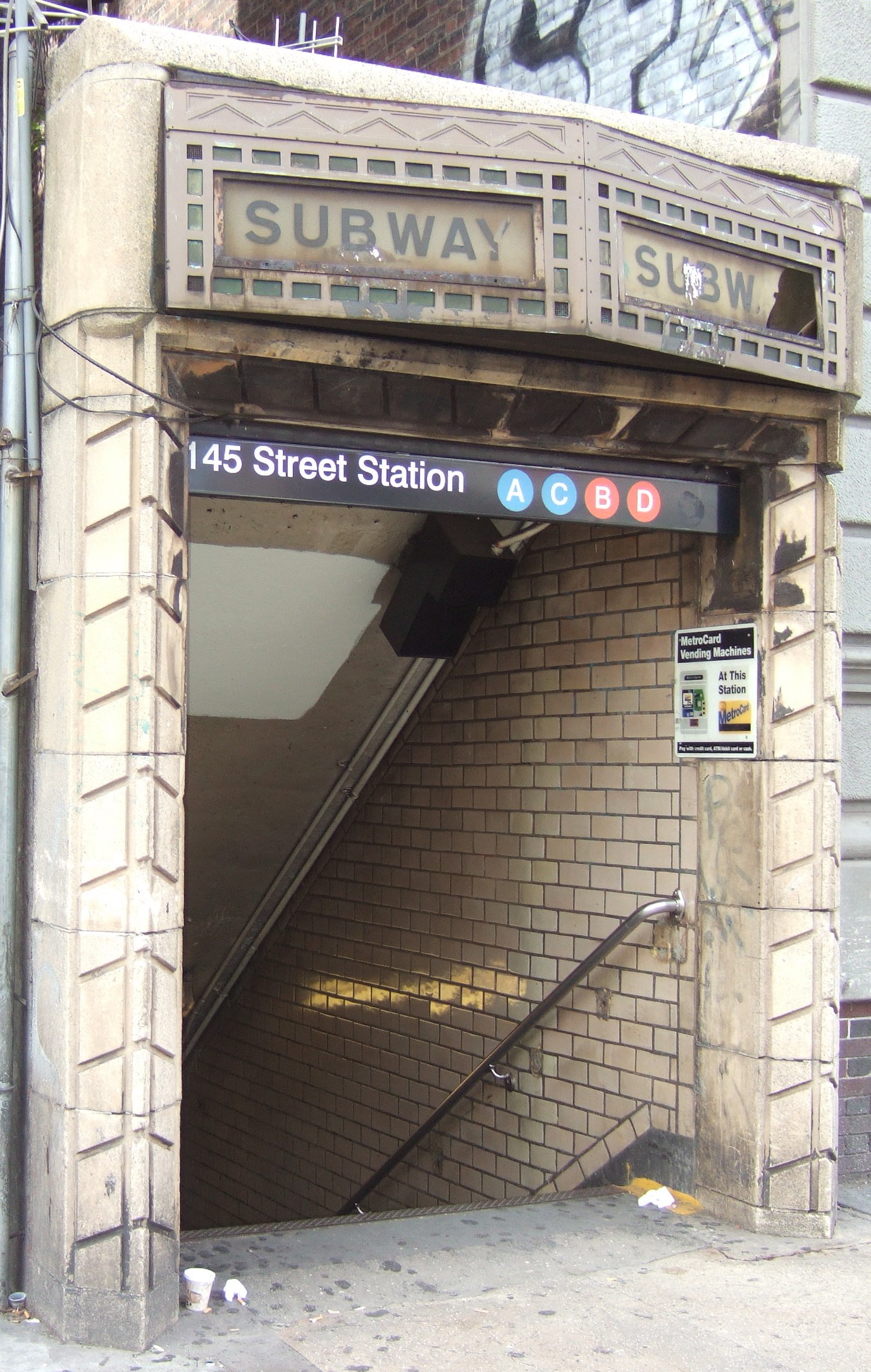 An entrance to the 145th Street station on the IND Eighth Avenue Line. This is in St. Nicholas Avenue between 147th and 148th Streets.